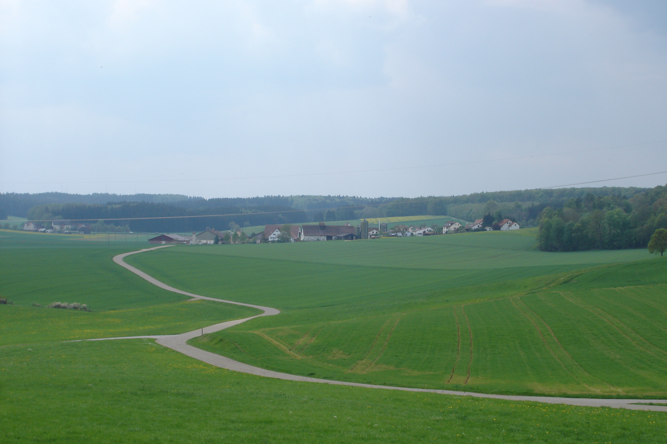 View of Hinterdenkental, a incorporated village of Westerstetten.